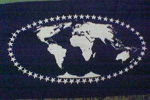 UN leag 1920